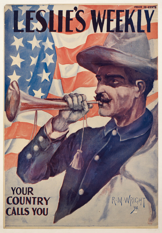 Front cover of Leslie's Weekly for June 30, 1898 Leslie’s Weekly: Your country calls you, 1898. R.M. Wright (American?, fl. 1880s-1890s). Published in Leslie’s Weekly, New York. Ink on paper poster. The Wolfsonian-FIU. Gift of Jean S. and Frederic A. Sharf, 2009.19.644.